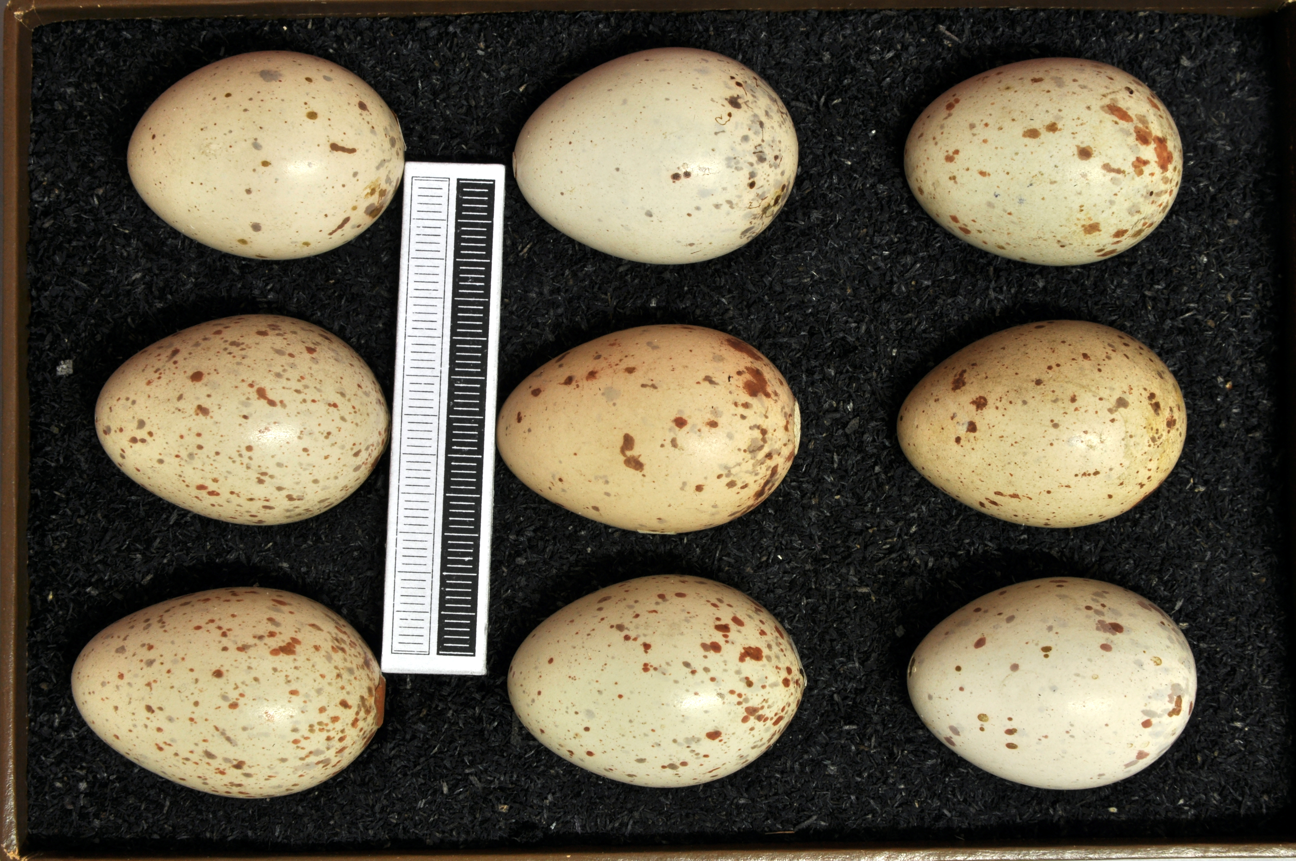 Corn crake Crex crex , egg, Coll. Museum Wiesbaden